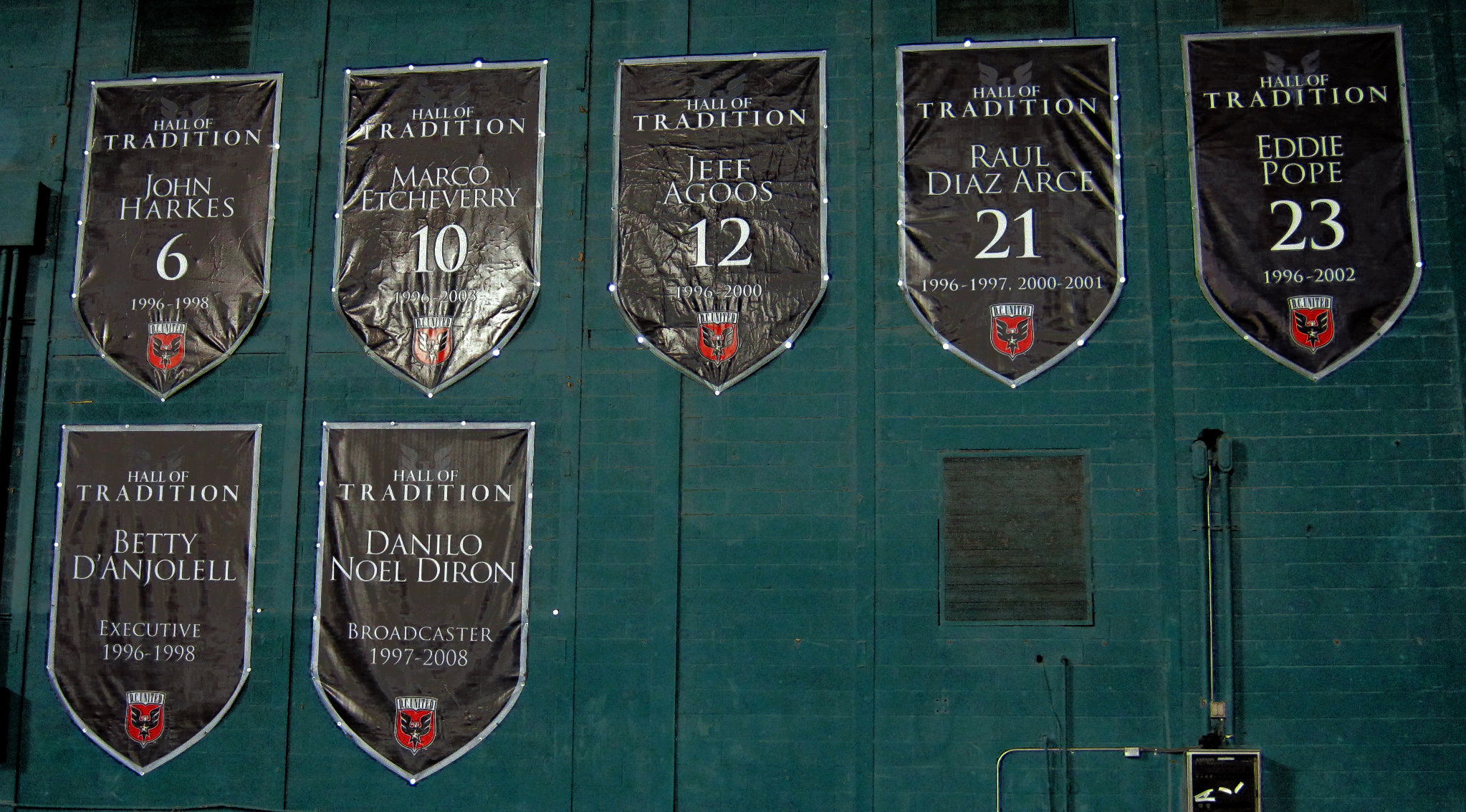 D.C. United Hall of Tradition posters, celebrating their great players, John Harkes, Marco Etcheverry, Jeff Agoos, Raul Diaz Arce, and Eddie Pope, as well as Detty D'Anjolell and Danilo Noel Diron.